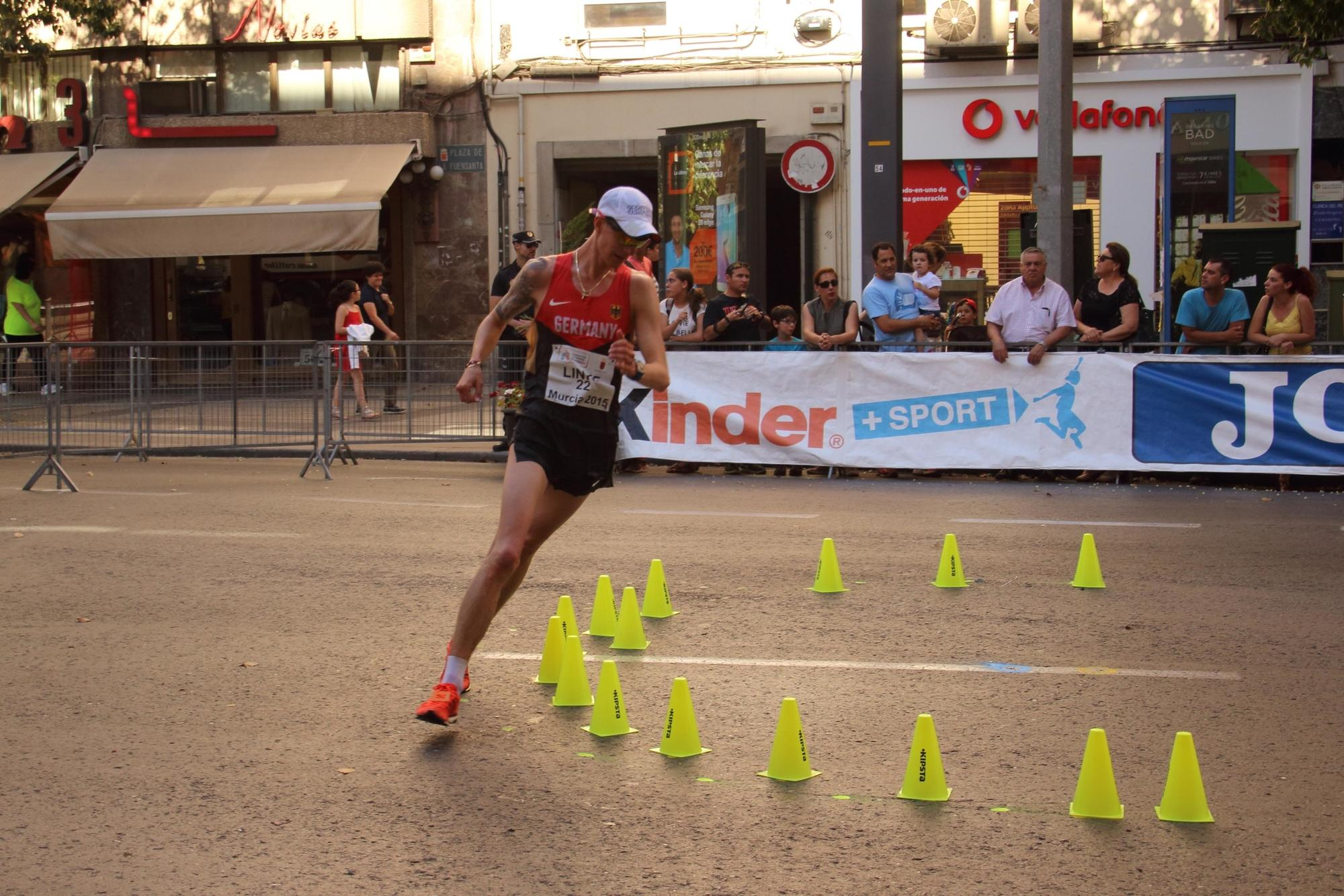 22-Christopher Linke (GER) in the 11th European Cup Race Walking Murcia ESP 17 May 2015